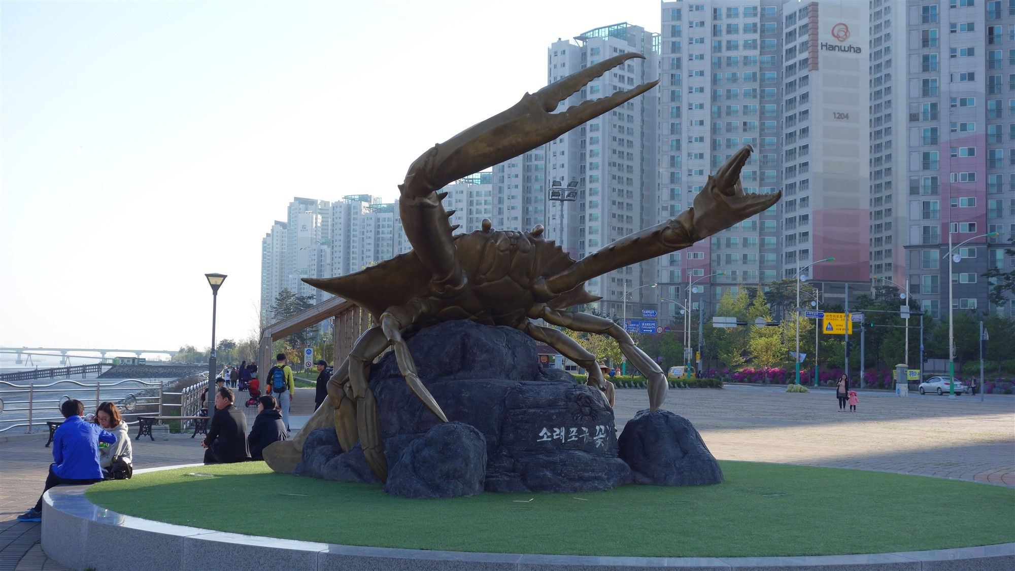 The lobster metal sculpture at Soreapogu port in Incheon, South Korea